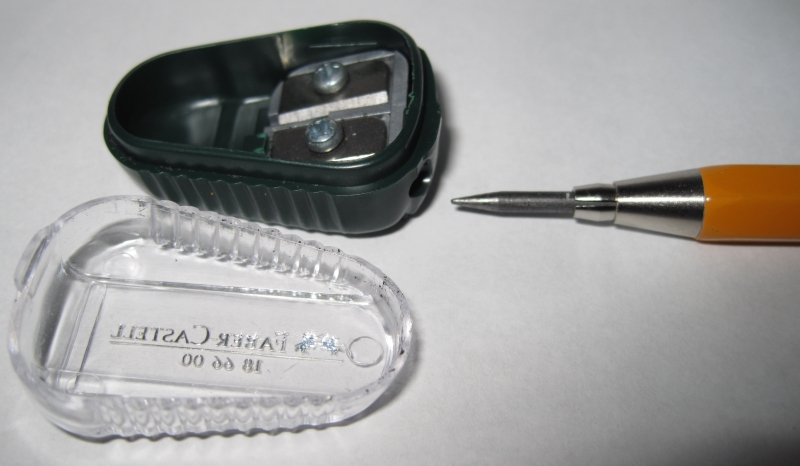 Faber-Castell 18 66 00 clutch pencil lead pointer. For two lead sizes 2 and 3.2 mm. Top removed with lead close by.